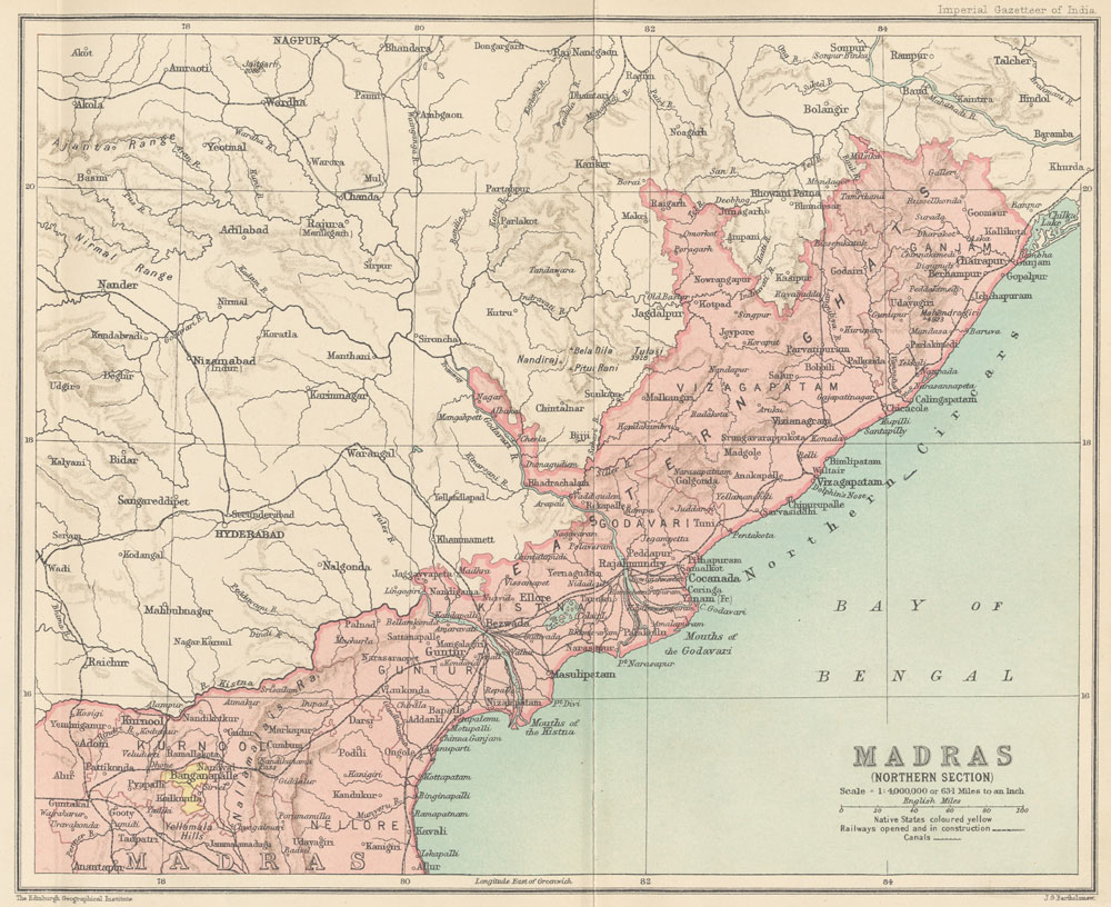 Northern portion of Madras Presidency, British India. From The Imperial Gazetteer of India", 1909.